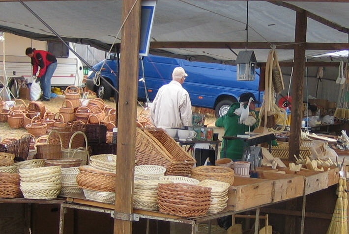 Basket stand at the market of Kivik